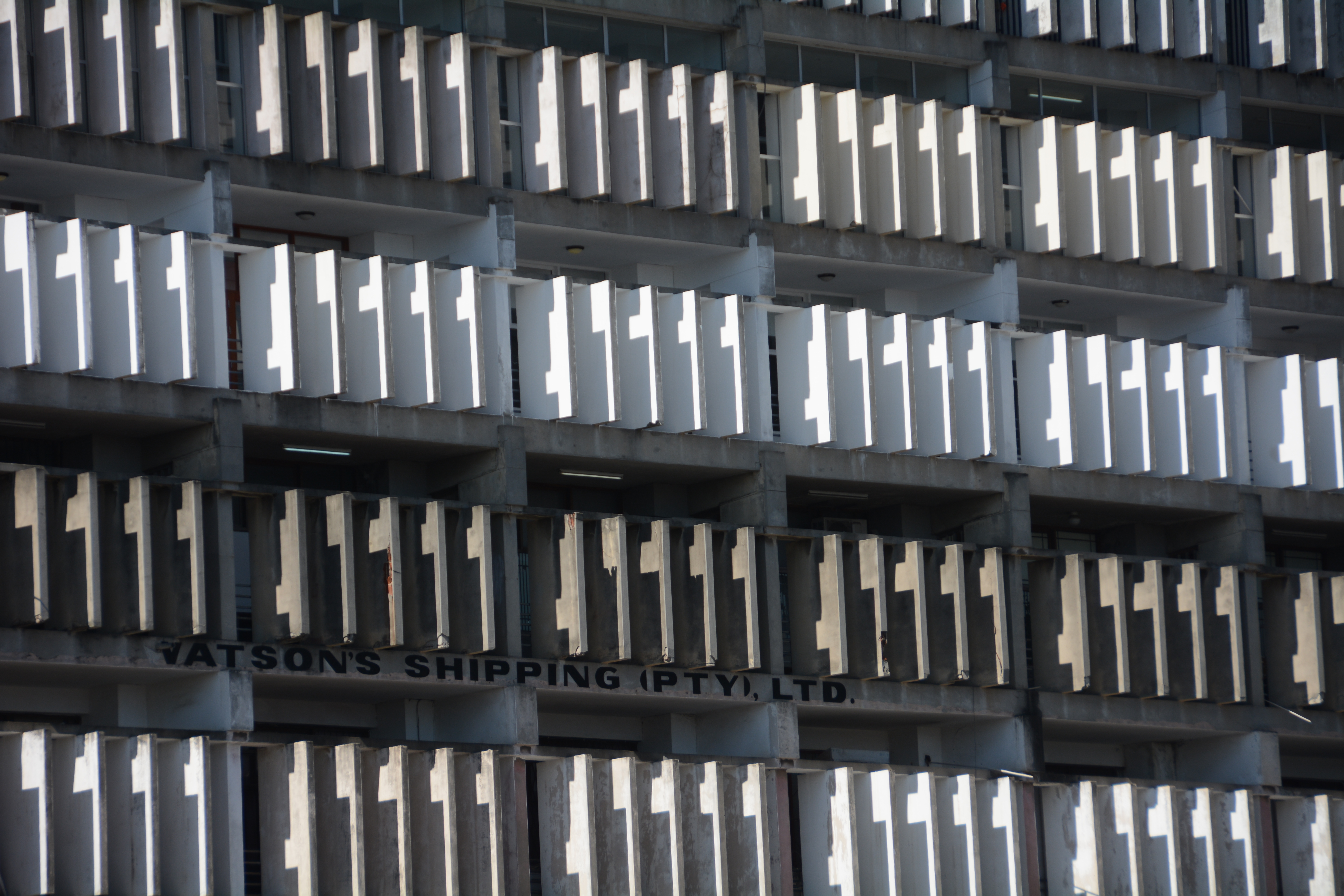 Brisesoleis (architectonical elements that give sun shade) at the Abreu, Santos e Rocha building, Maputo Mozambique